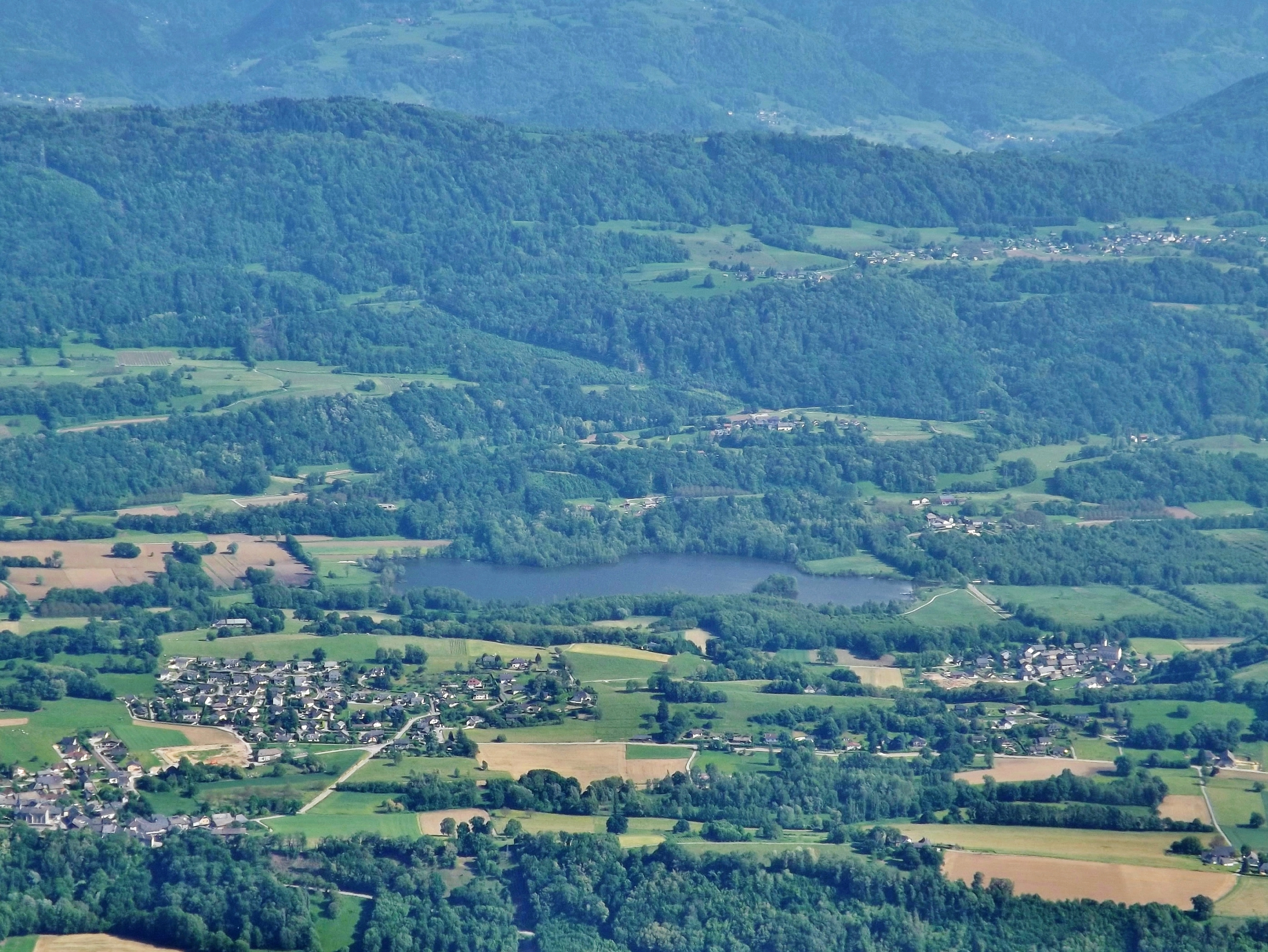 Aerian sight, from the Roche du Guet mount in the Bauges mountain range, of the lac de Sainte-Hélène lake, in the combe de Savoie valley near Chambéry, in Savoie.